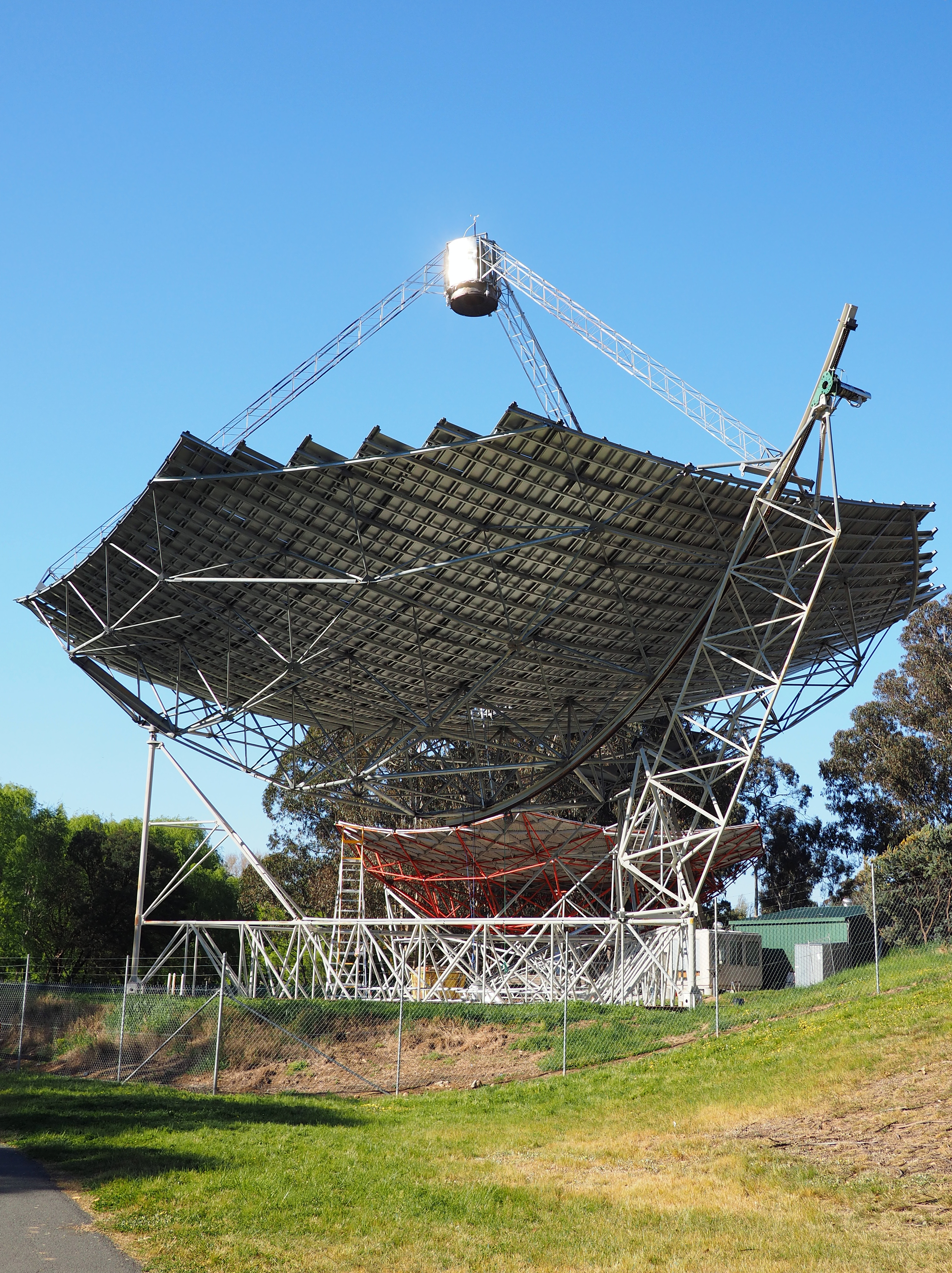 The ANU SG4 (Solar Generator 4) dish viewed from the south. At the time the photo was taken the Australian National University's website stated that it was "the world's largest paraboloidal dish solar concentrator, with 489 m2 of mirror aperture area".